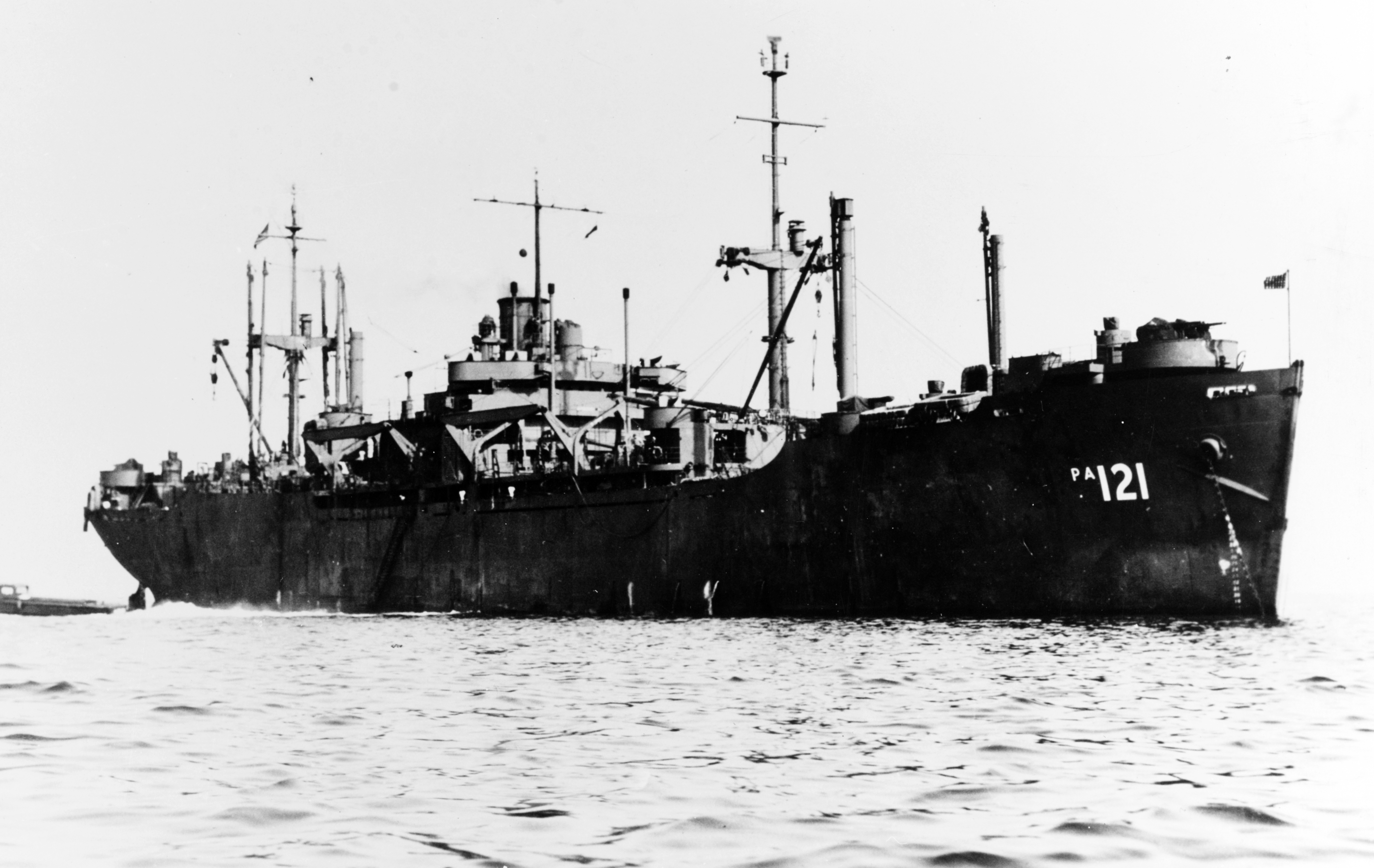 USS Hocking (APA-121) at anchor, circa 1945. US Navy photo # NH 73270-A from the collections of the US Naval Historical Center. Courtesy of the Naval Historical Foundation, Washington, D.C. Collection of James W. Gaddis, donated by Colonel C.K. Mahakian, 1972. Official US Navy photo taken from